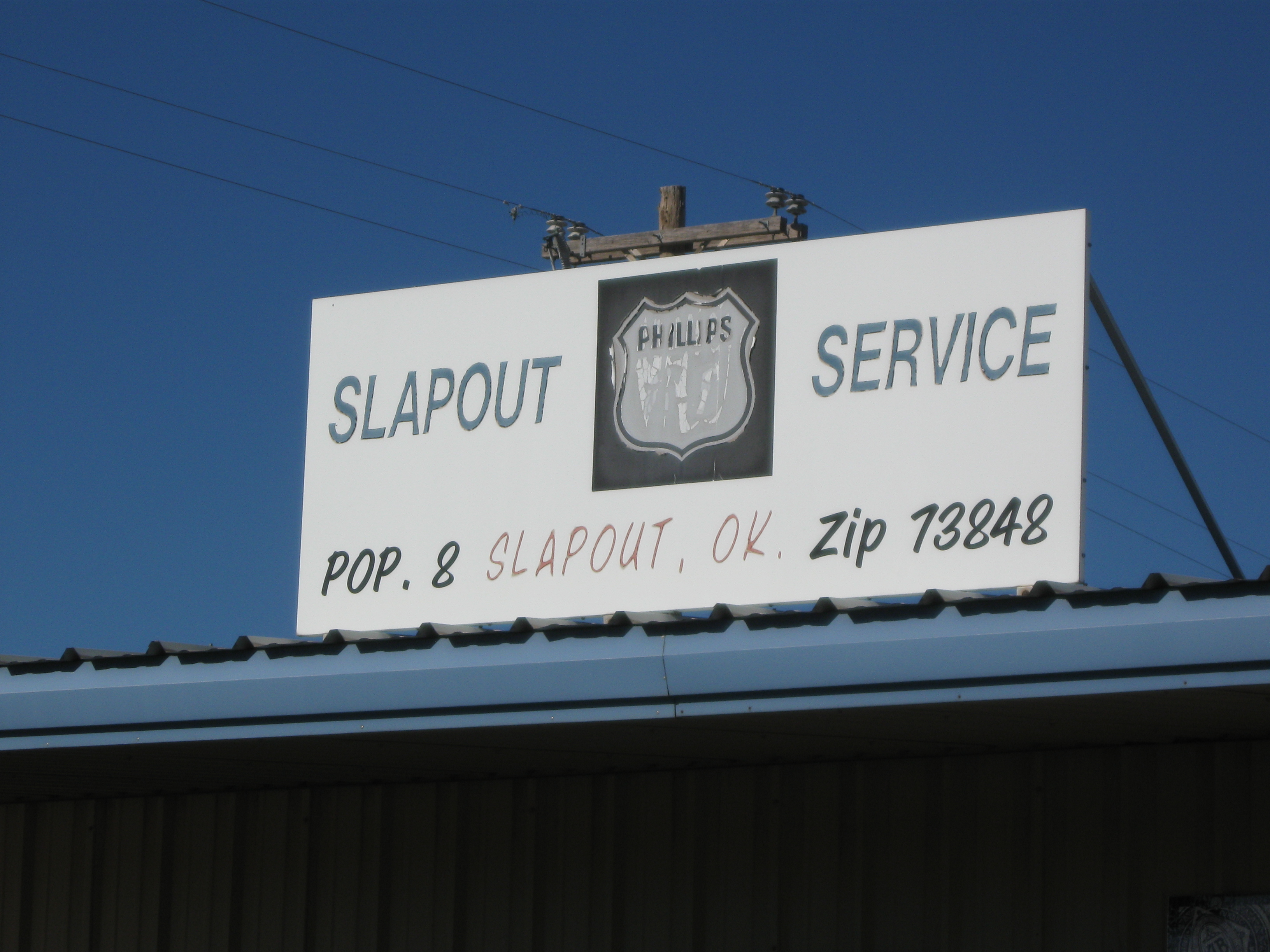 This is the sign atop the gas station in Slapout, Oklahoma. This photo is looking north, and was taken in November, 2011.